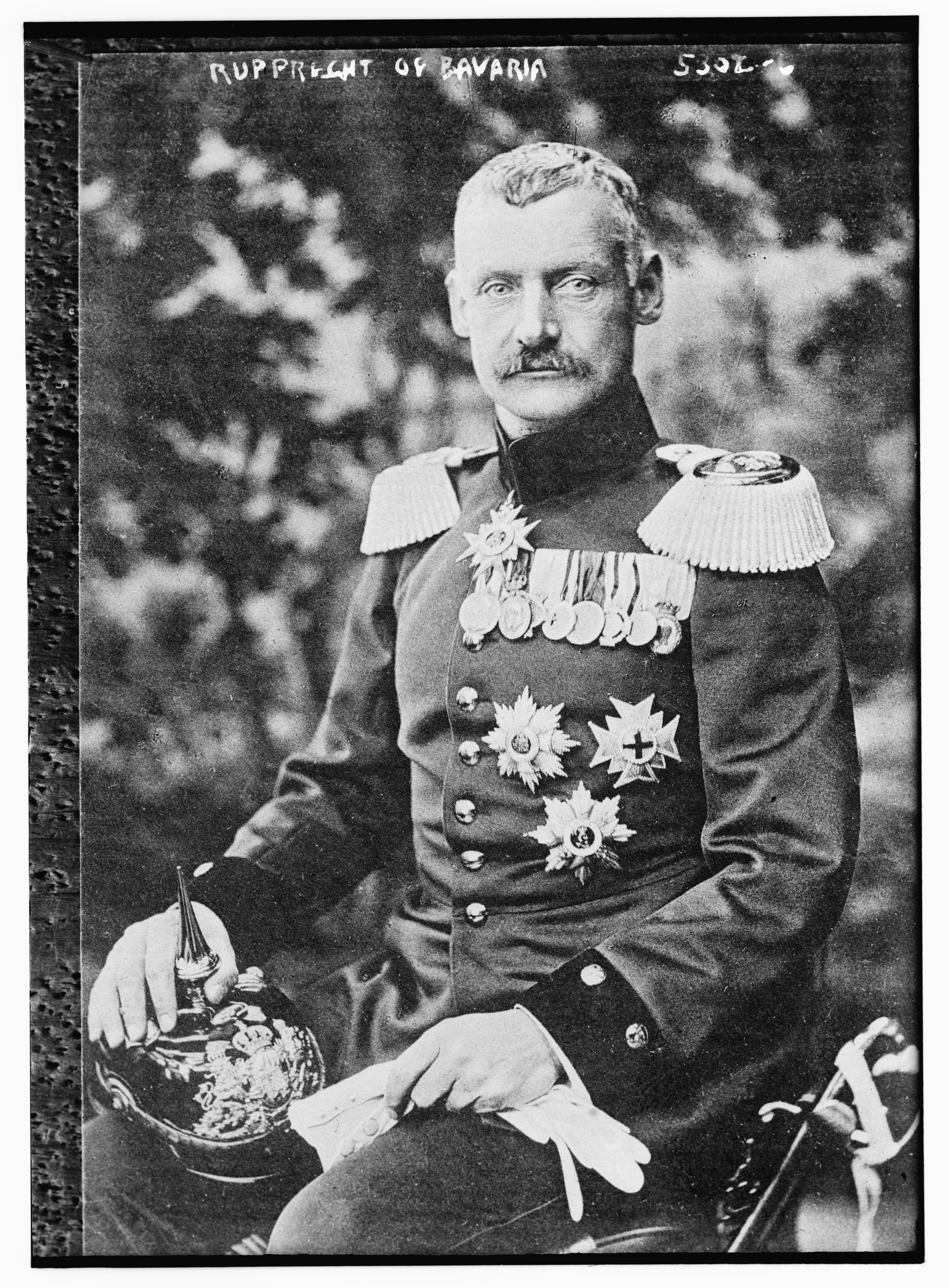 Title: Rupprecht of Bavaria Abstract/medium: 1 negative : glass ; 5 x 7 in. or smaller.